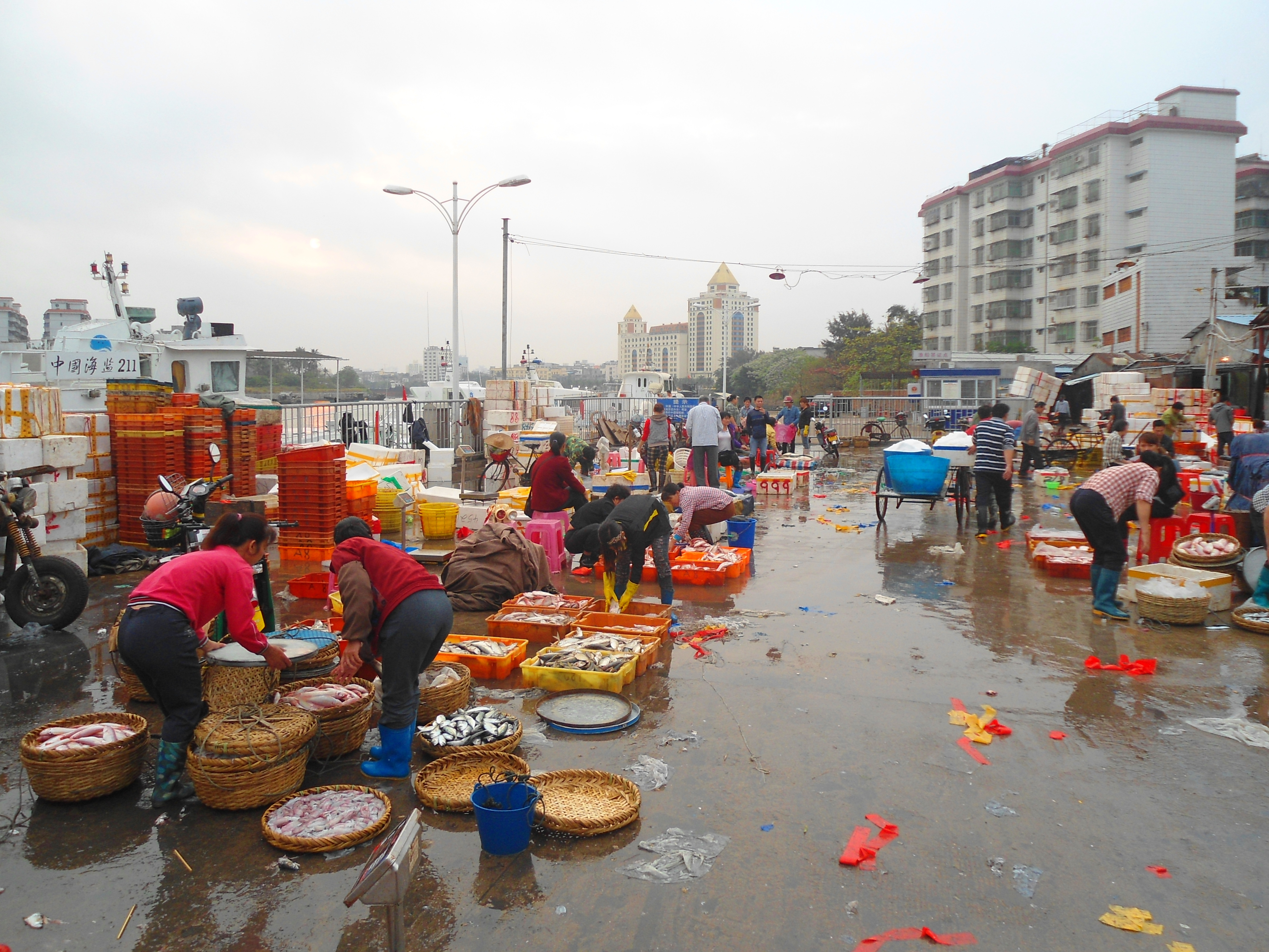 Early morning view of the wholesale fish market at Haikou New Port, Haikou, Hainan, China.